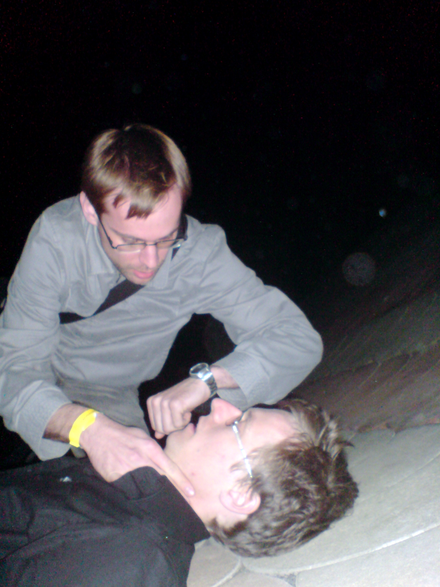 Pieter is doing first aid for a drunk spaniard.